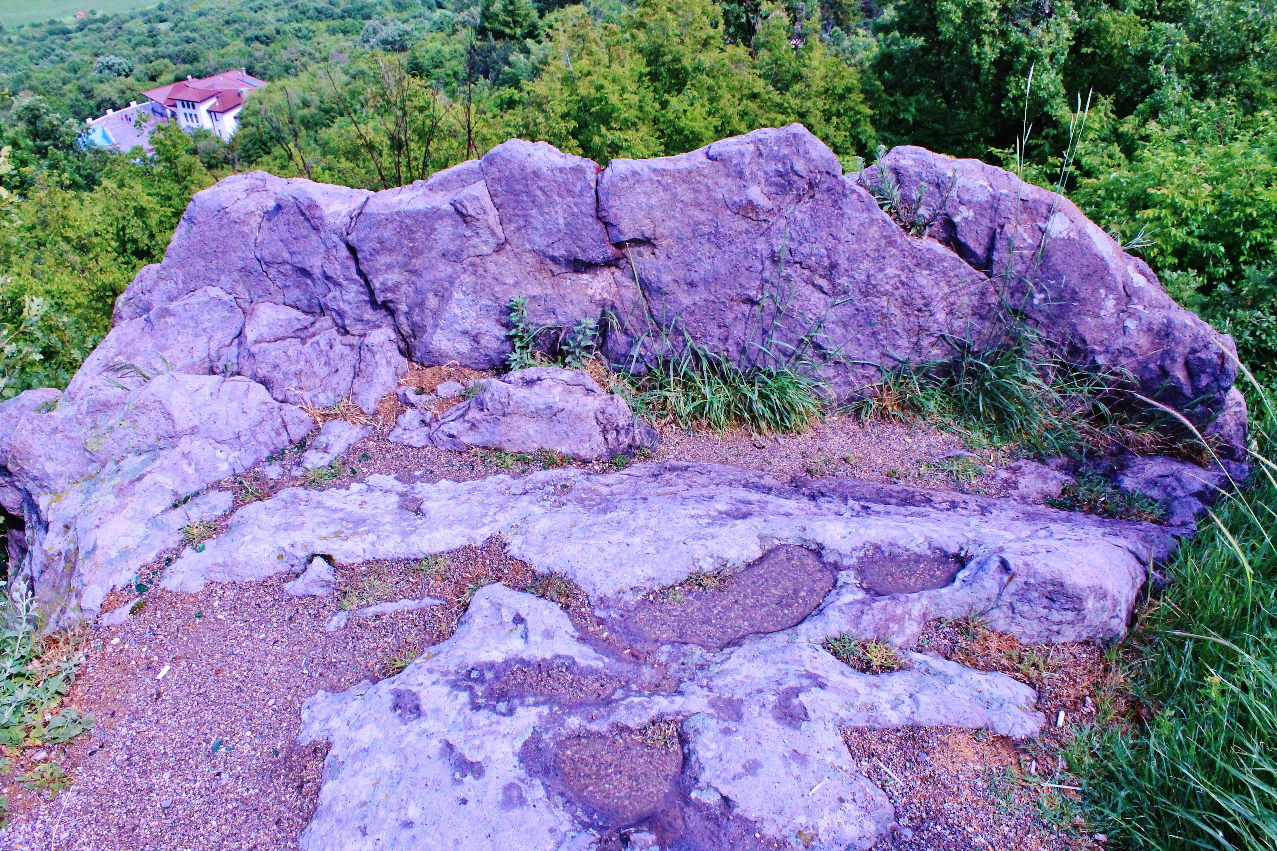 Ritual carvings Sharapana Area Bryastovo Mechkovetz Rhodopa Mountains Bulgaria